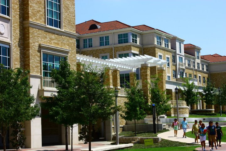 TCU Dorms